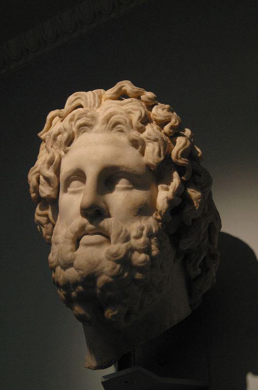 Colossal head of Asclepios wearing a metal crown (now lost), from a cult statue. Marble, Hellenistic artwork, 325-300 BC. From Melos.